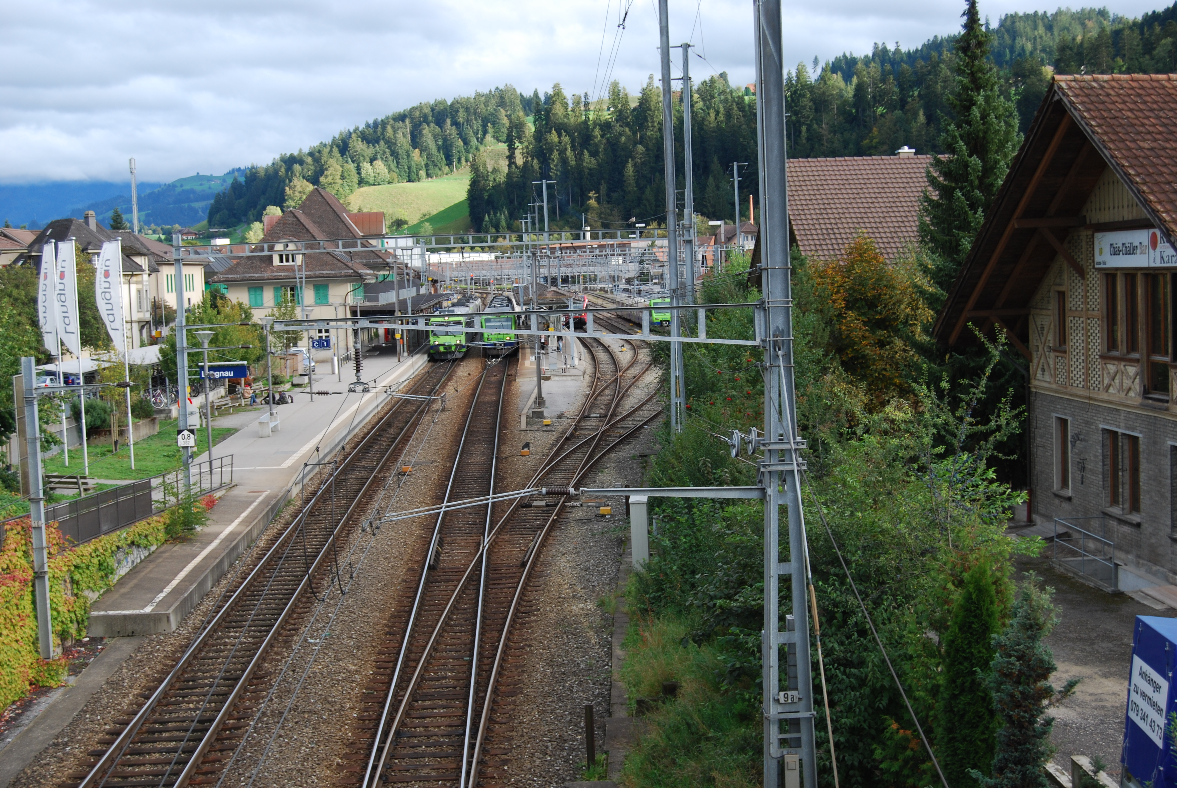 Train station of Langnau in the Emme Valley, canton of Bern, Switzerland